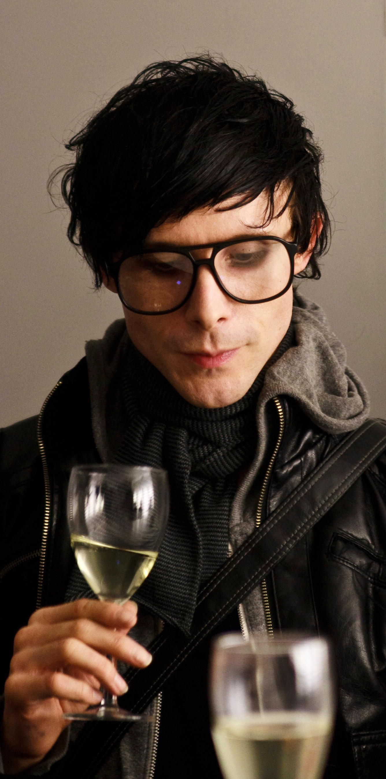 IAMX Autograph Session at Funk Optik Munich on 2009-10-29.